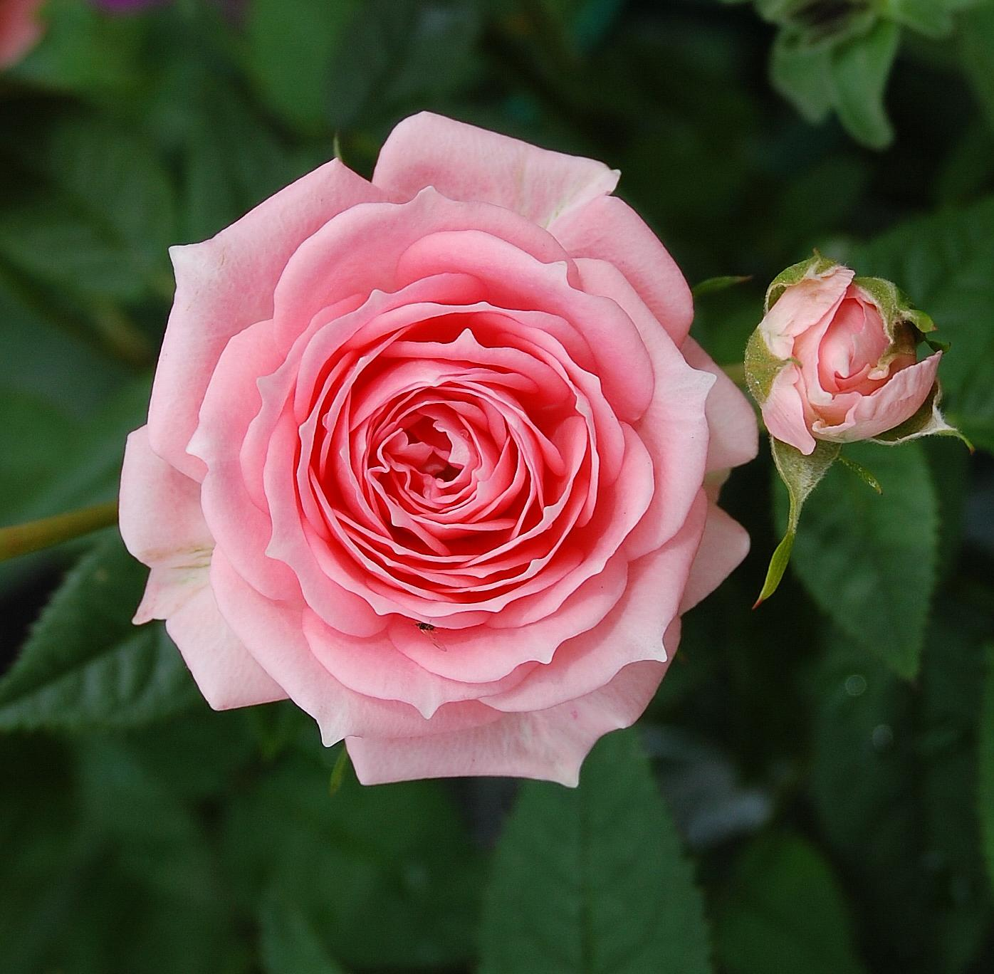 Pink rose